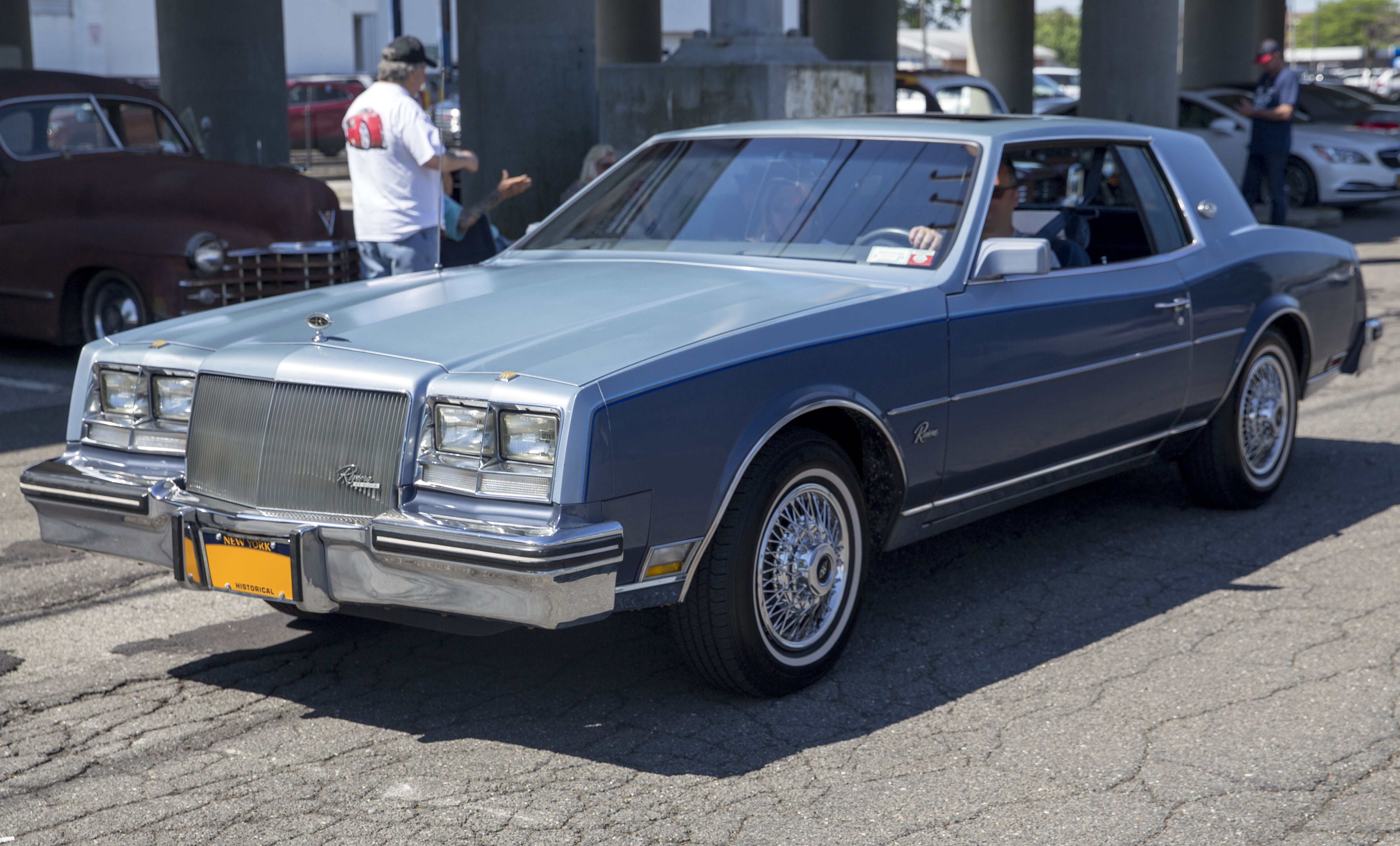 A 1984 Buick Riviera coupe in Wantagh, Long Island, NY. 150hp four-barrel 307ci V8 engine from GM's Oldsmobile division.